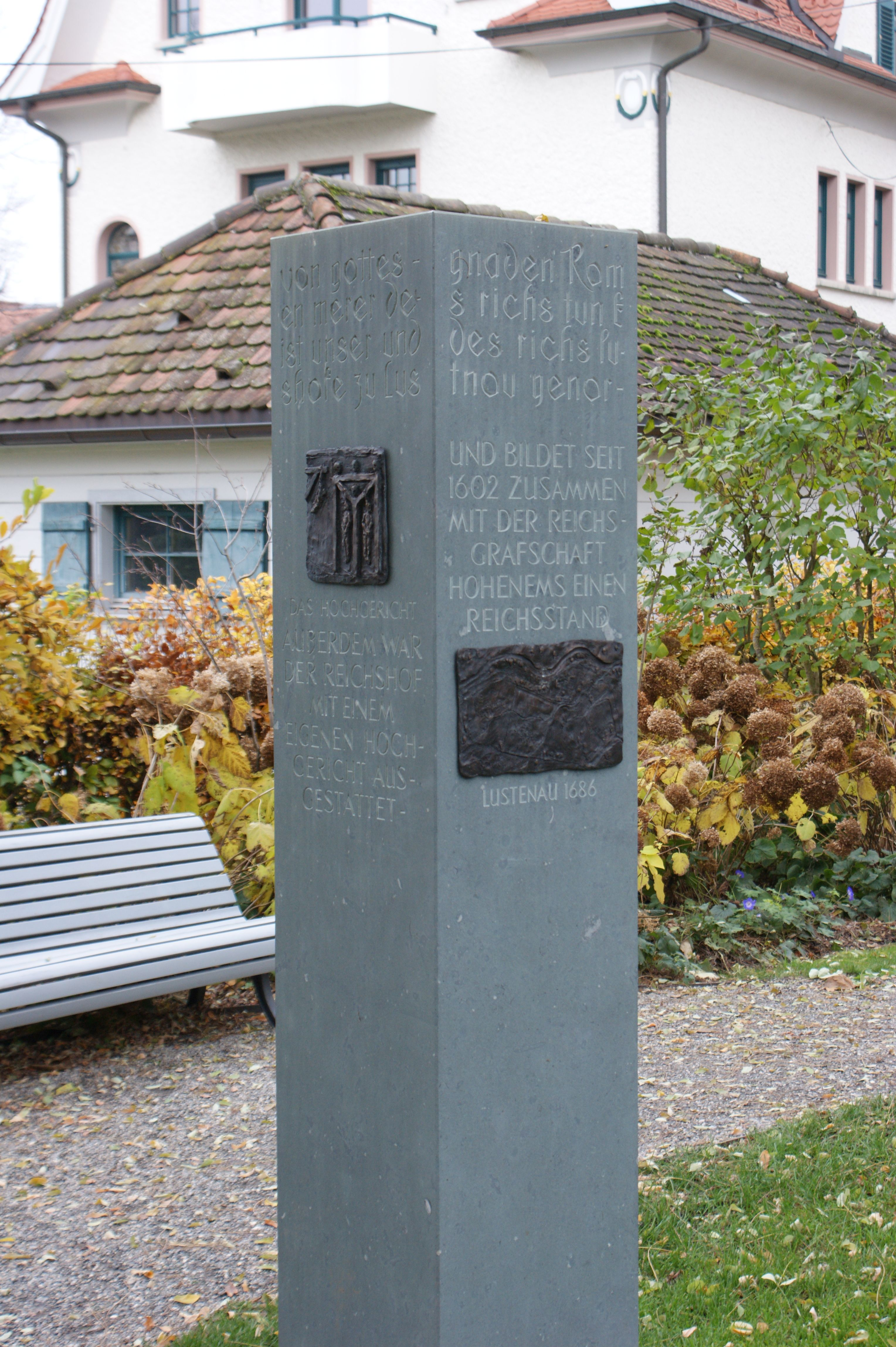 Classified as a historical monument: Lustenau Town Hall, Vorarlberg, Austria. Memorial column.